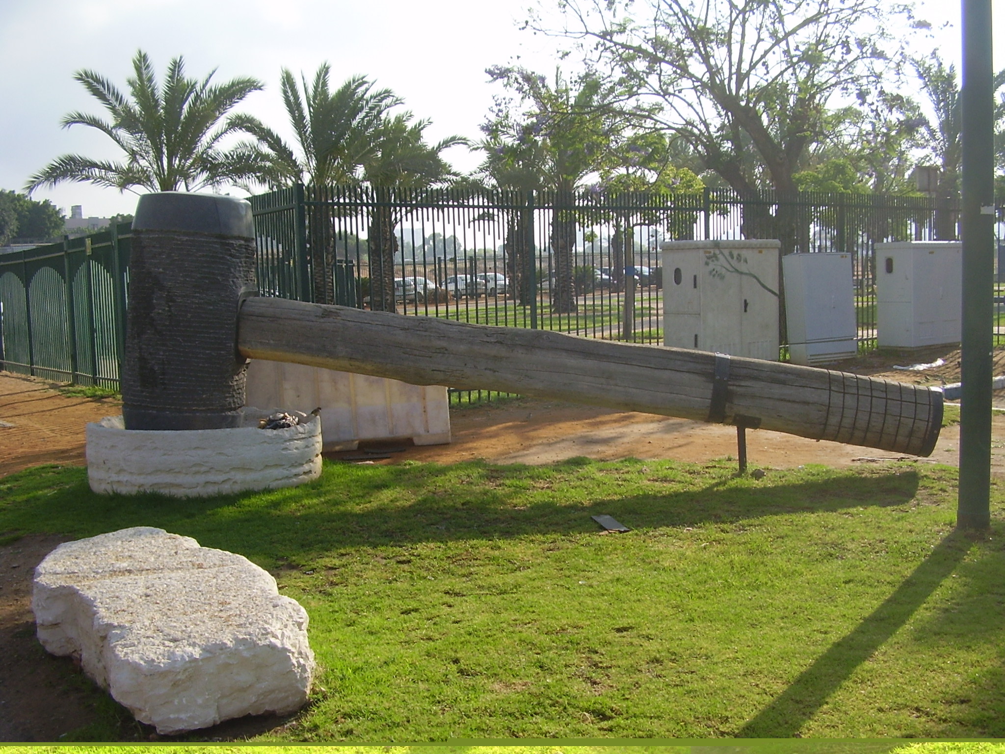 Judge hammer in Petah Tikva